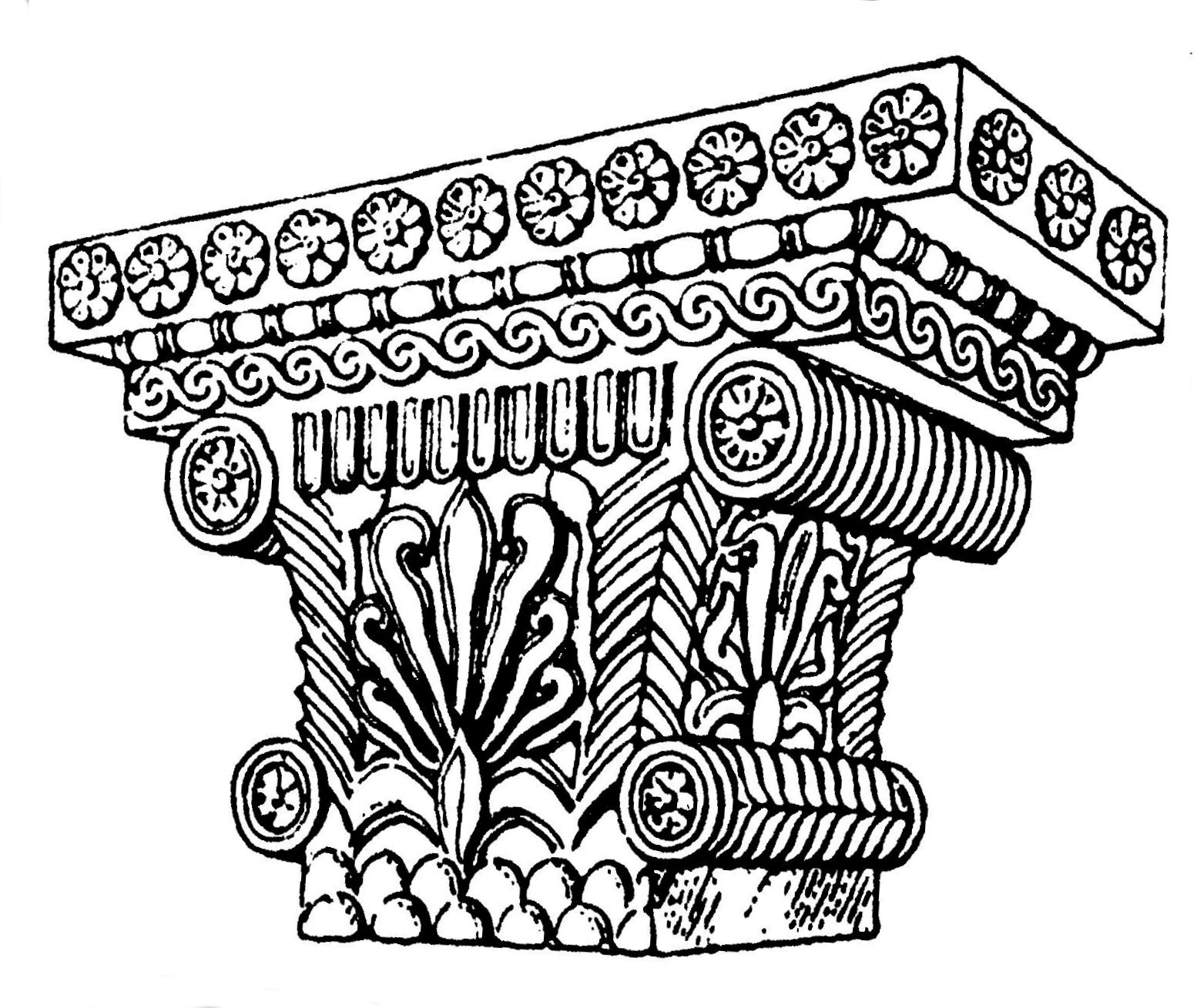 Pataliputra capital illustration. This is the front of the capital. The front and the back of the capital are illustrated hereafter: Front and back of the capital.